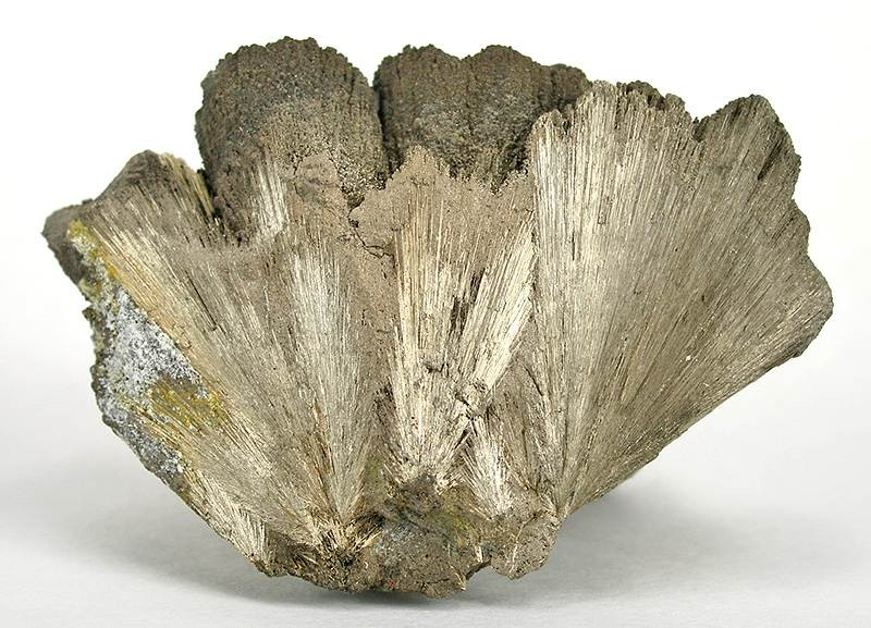 Millerite Locality: Perseverance Mine, Agnew, Leinster, Leonora Shire, Goldfields-Esperance region, Western Australia, Australia (Locality at ) A relatively aesthetic specimen of lamellar growth millerite which here is an attractive spray but is normally seen just forming in layers at this classic and now defunct nickel mine. The millerite completely filled cracks in the rock to form thick layers of parallel-grown acicular crystals . Rarely, as here, we see terminated crystals in a rolling crust atop, though the side view is simply more pretty! It is very bright and golden-colored, and totally unique for millerite occurences. I have not seen such a good piece out there in years. 5.7 x 4.1 x 3.0 cm